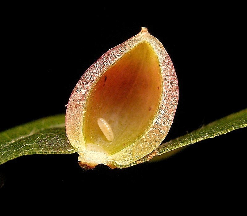 Fagus sylvatica gall